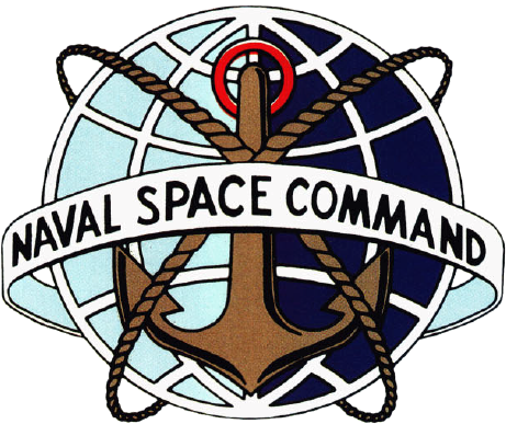 Insignia of the U.S. Naval Space Command, active from 1 October 1983 to July 2002.